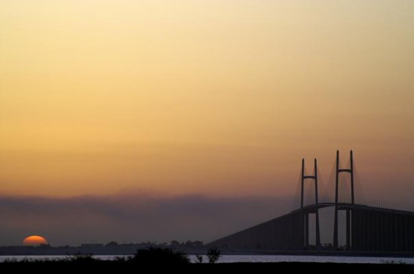 Sunset view from land to Suez Canal Bridge Across by Suez canal